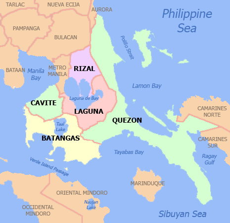 Political map of the CALABARZON Region, Philippines. Showing Batangas, Cavite, Laguna, Quezon and Rizal. Used the map template :Image:BlankMap-Philippines.png by User:TheCoffee.